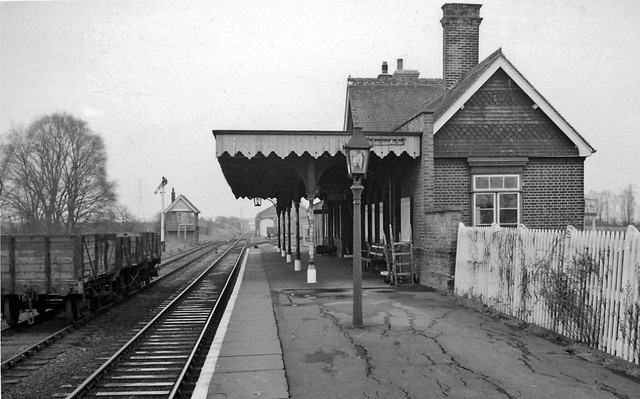 Battlesbridge Station. View NE, towards Southminster; Wickford - Southminster branch.